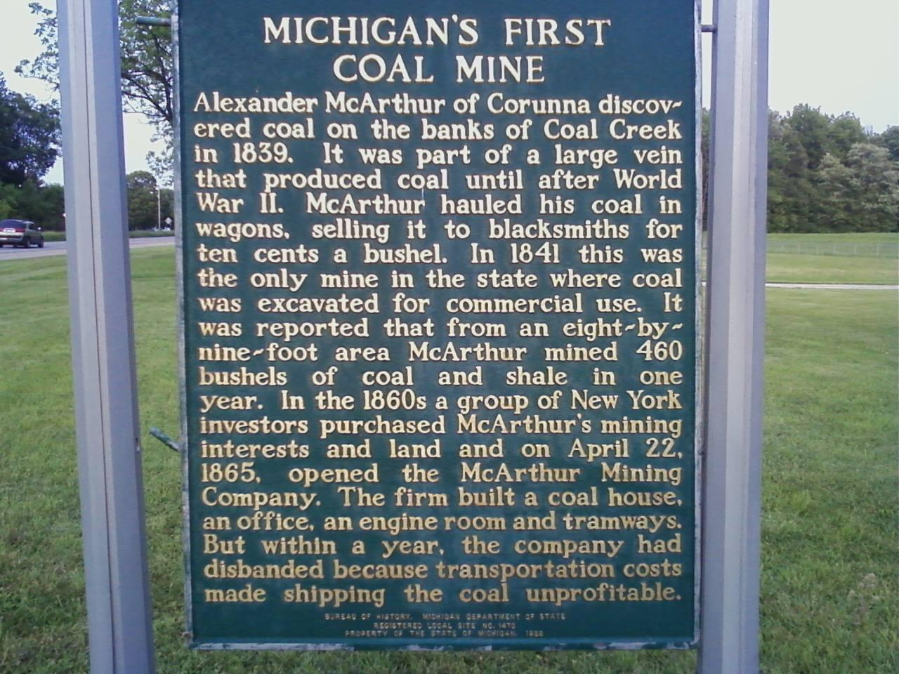 Michigan Historical Marker for State's First Coal Mine